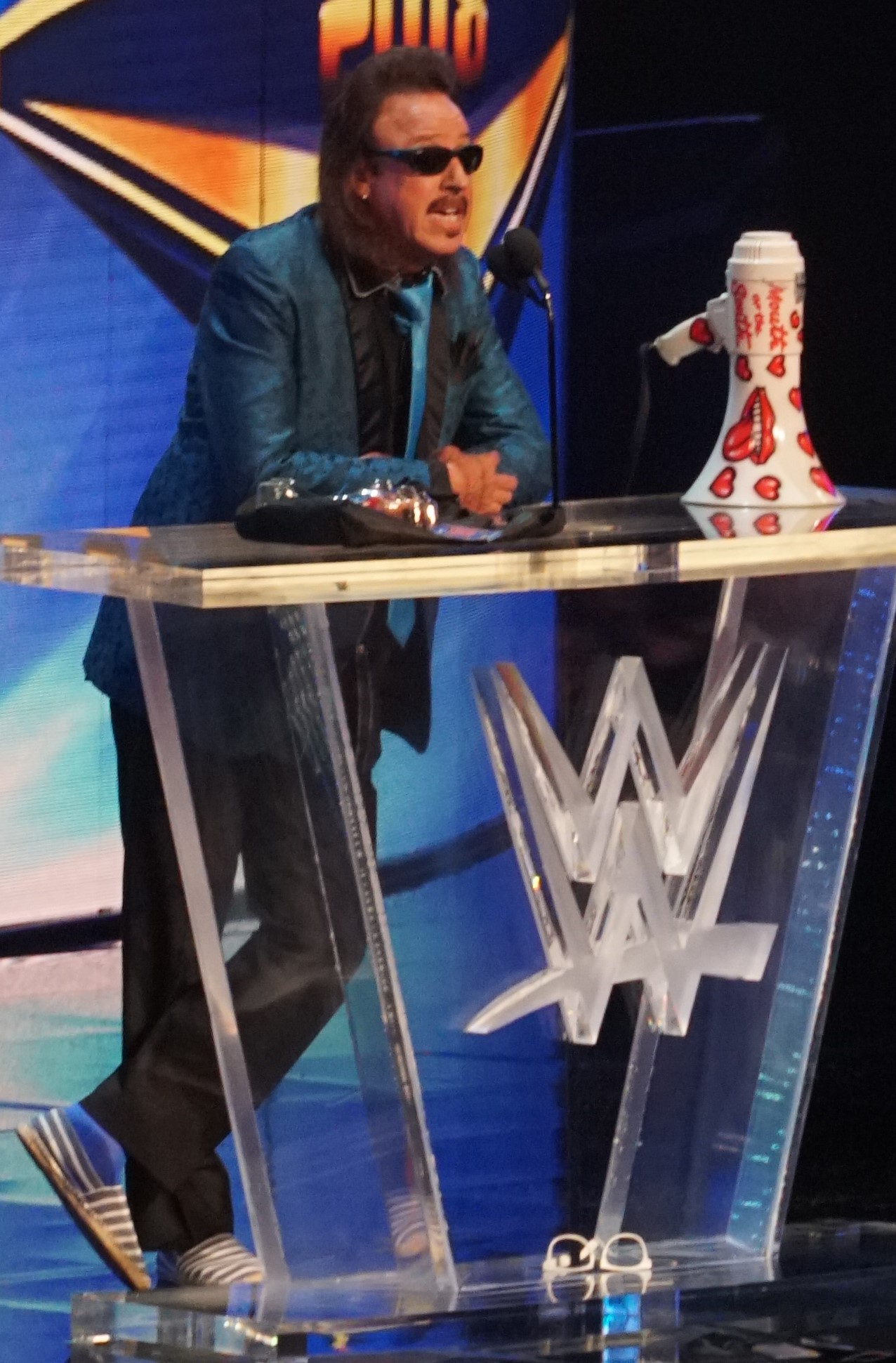 Jimmy Hart at the 2018 WWE Hall of Fame ceremony.